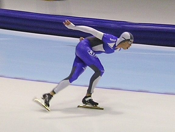 Jarmo Valtonen (FIN) in action at the WCh Allround in Thialf (Heerenveen, The Netherlands)